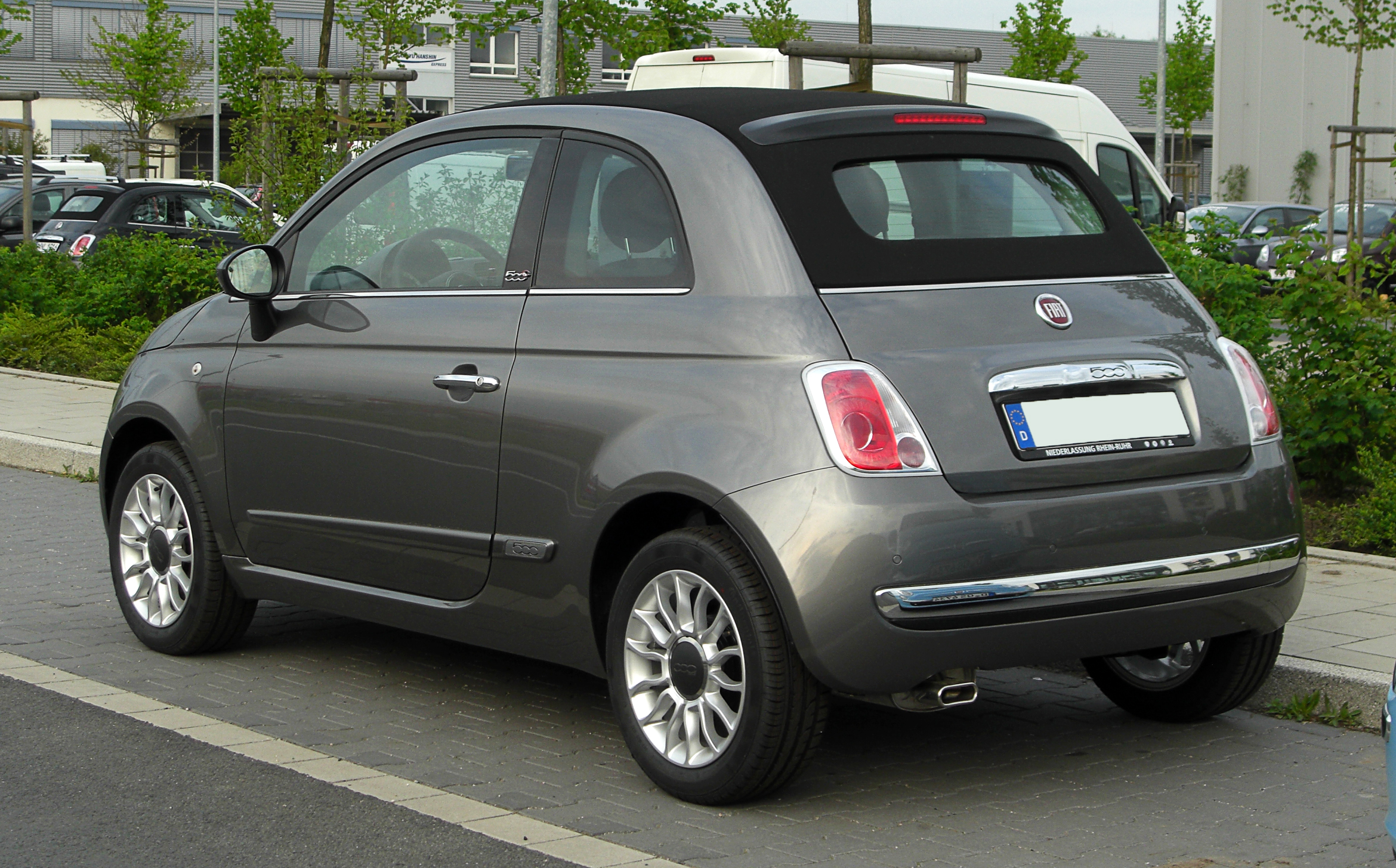 Fiat 500C 1.2 8V Lounge